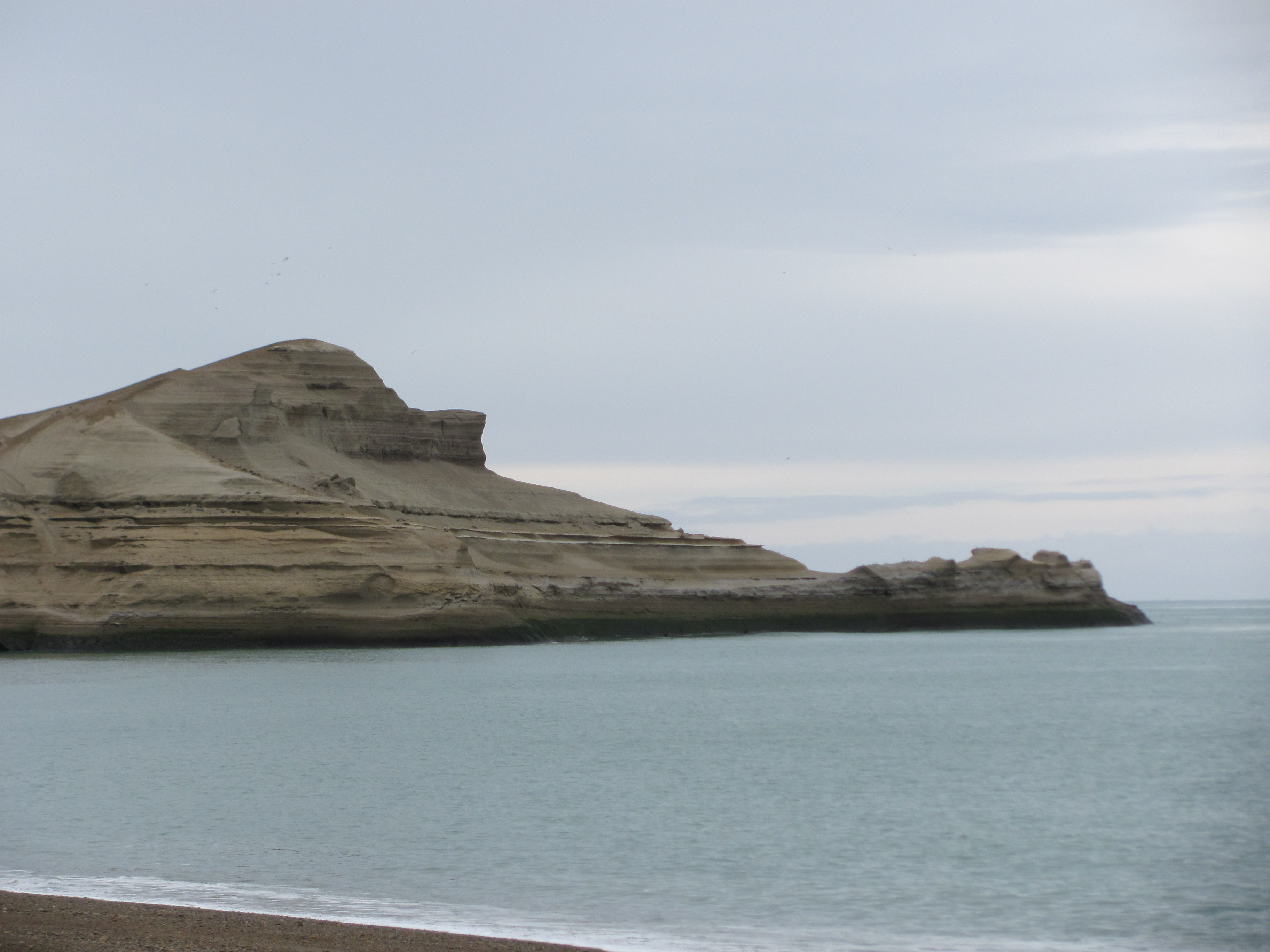 Coast of Monte Leon National Park in Santa Cruz (Patagonia, Argentina)